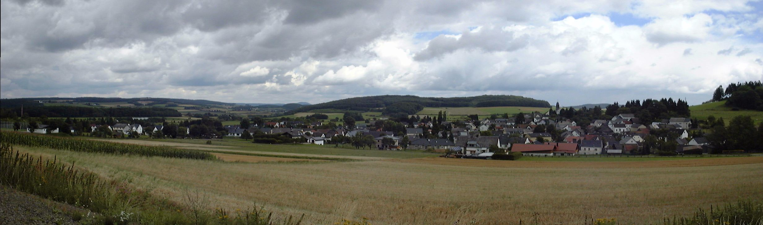 Walsdorf (Eifel), Germany